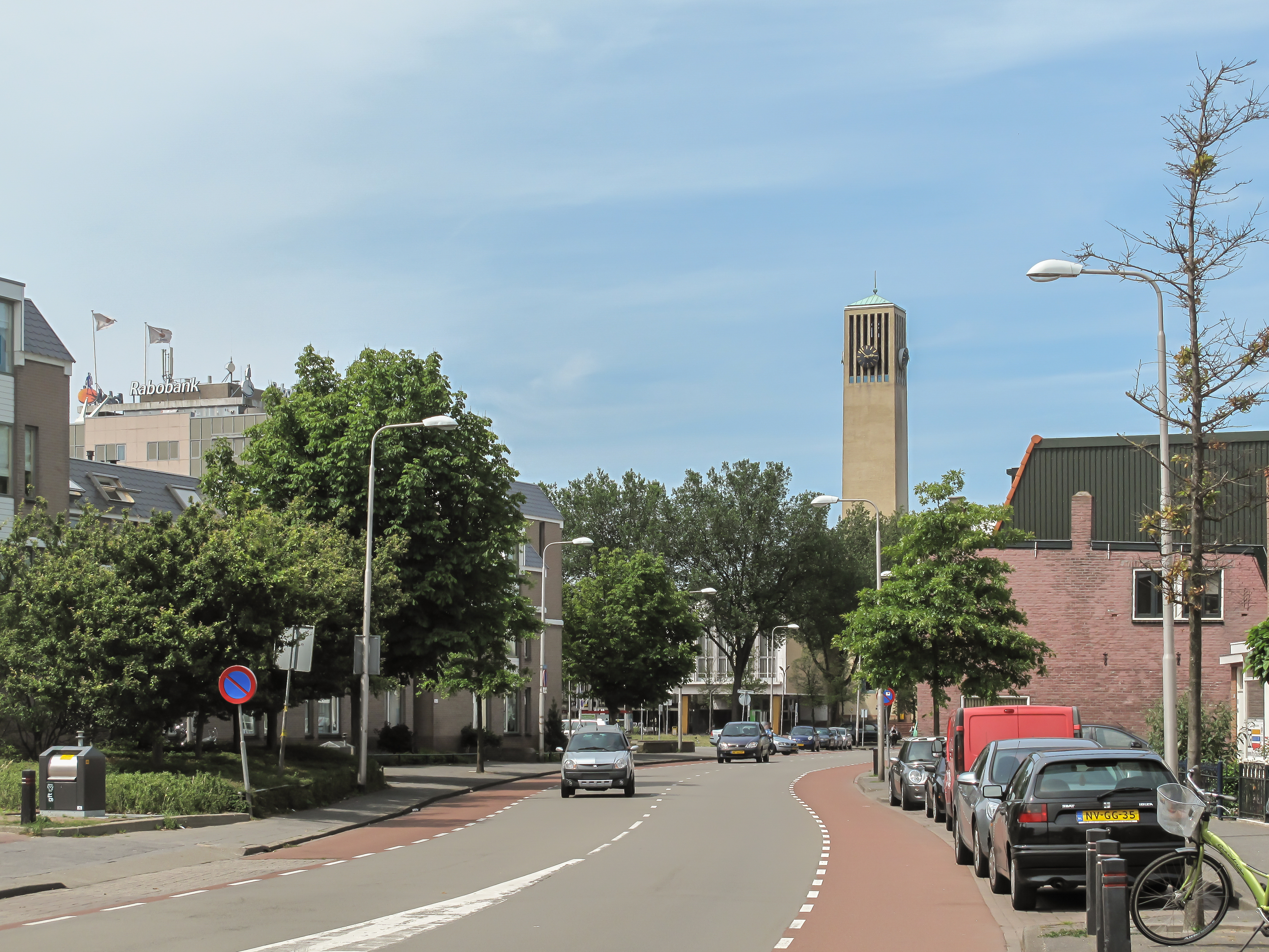 IJmuiden , view to a street (townhall at the background)